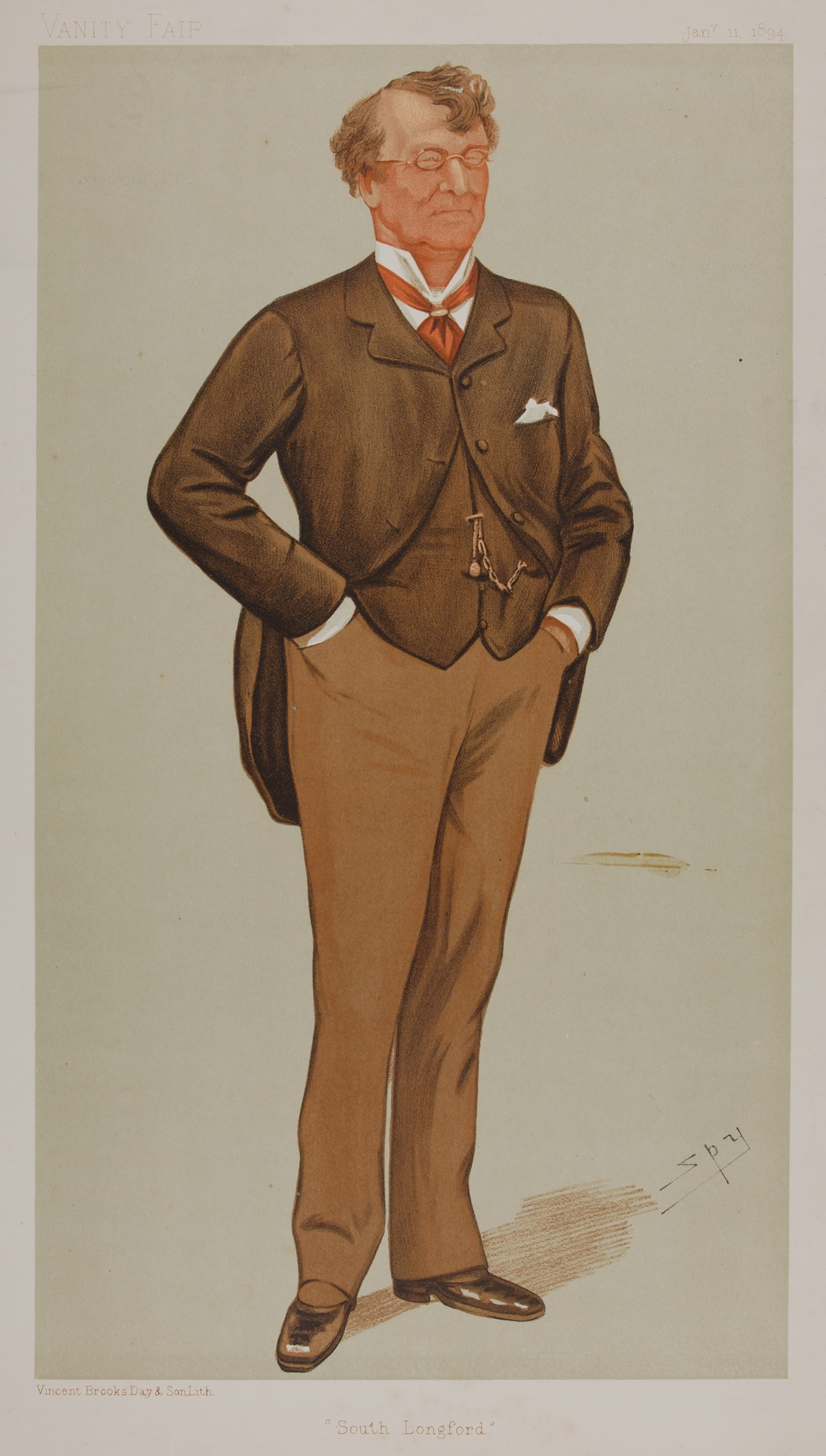 Statesmen No. 628: Caricature of Dominick Edward Blake. Caption read "South Longford".